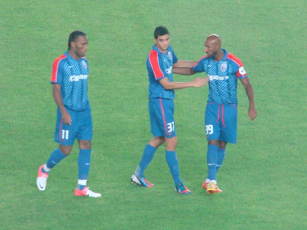 Didier Drogba, Giovanni Moreno and Nicolas Anelka played for Shanghai Shenhua against Guangzhou Evergrande